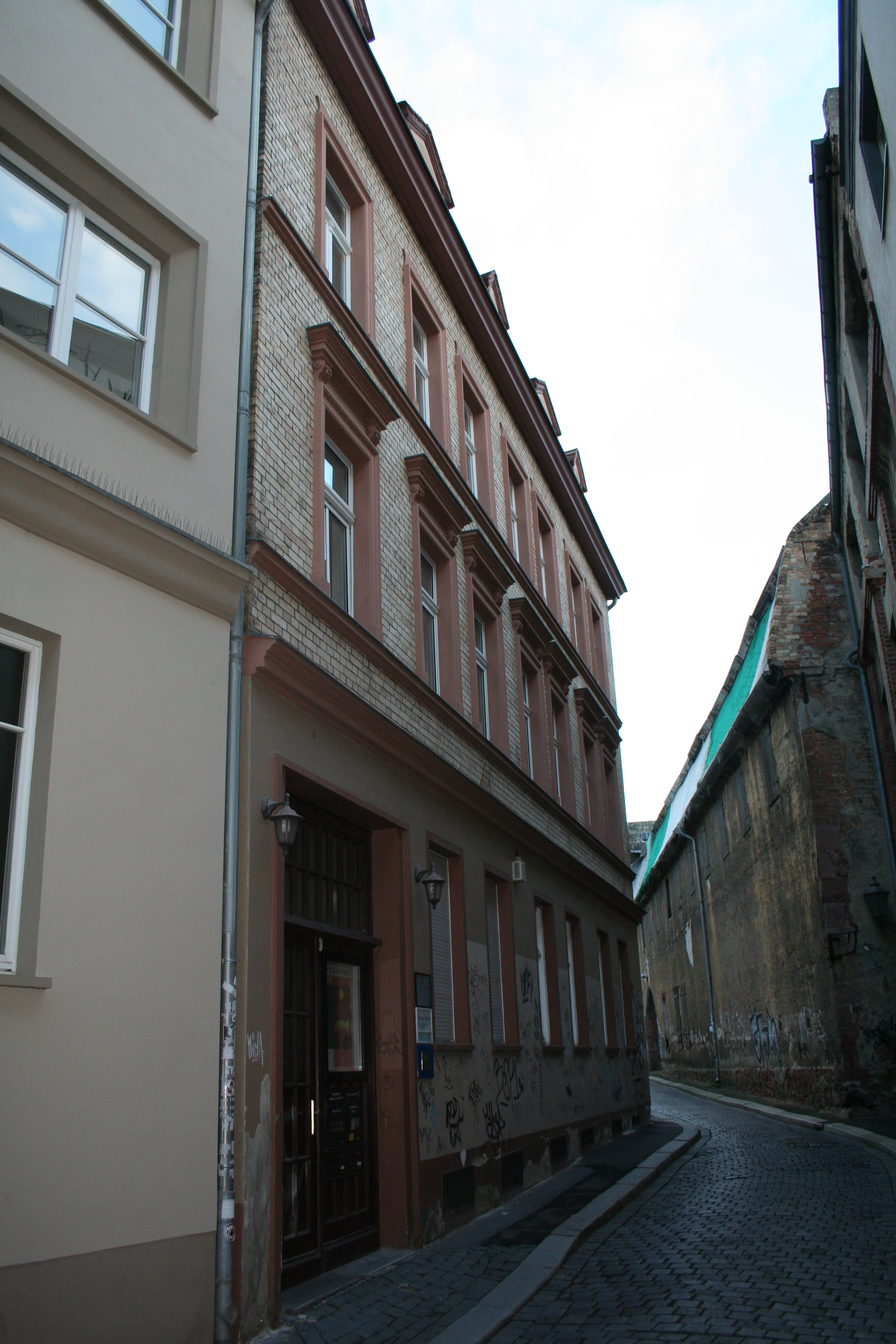 Kleine Märkerstraße 3 in Halle (Saale)